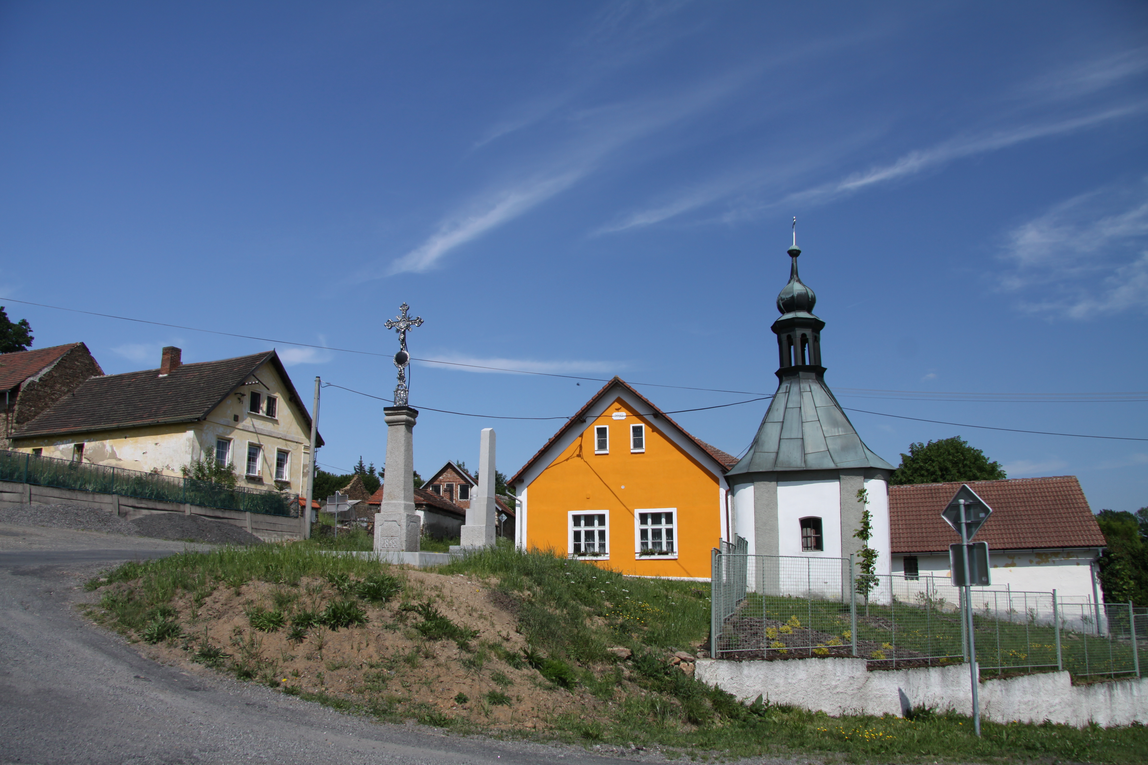 Chapel in Polánka village, Plzeň-South District, Czech Republic - Google Maps - Google Earth